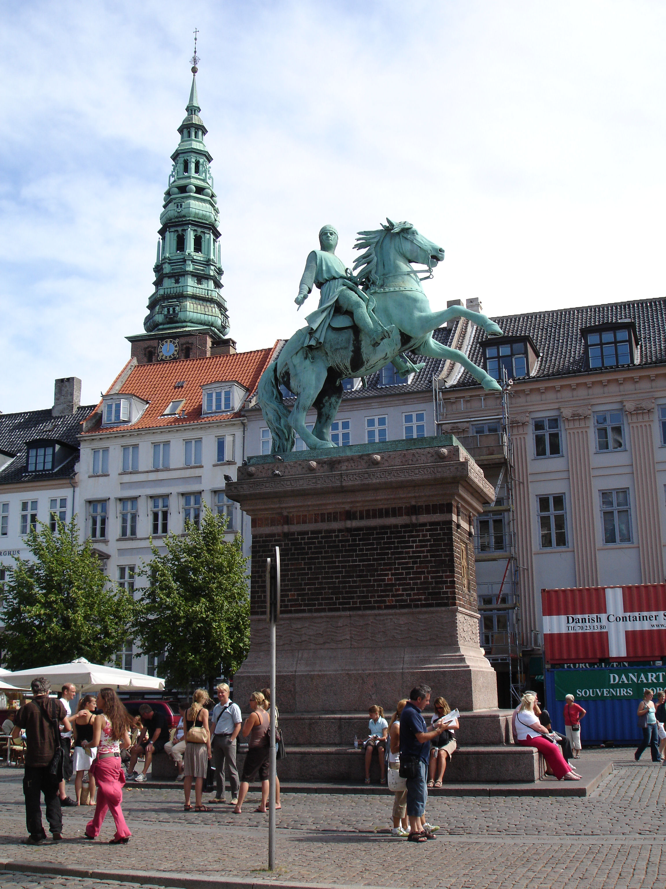 The equestrian statue of Bishop Absalon on Højbro Plads in Copenhagen, Denmark